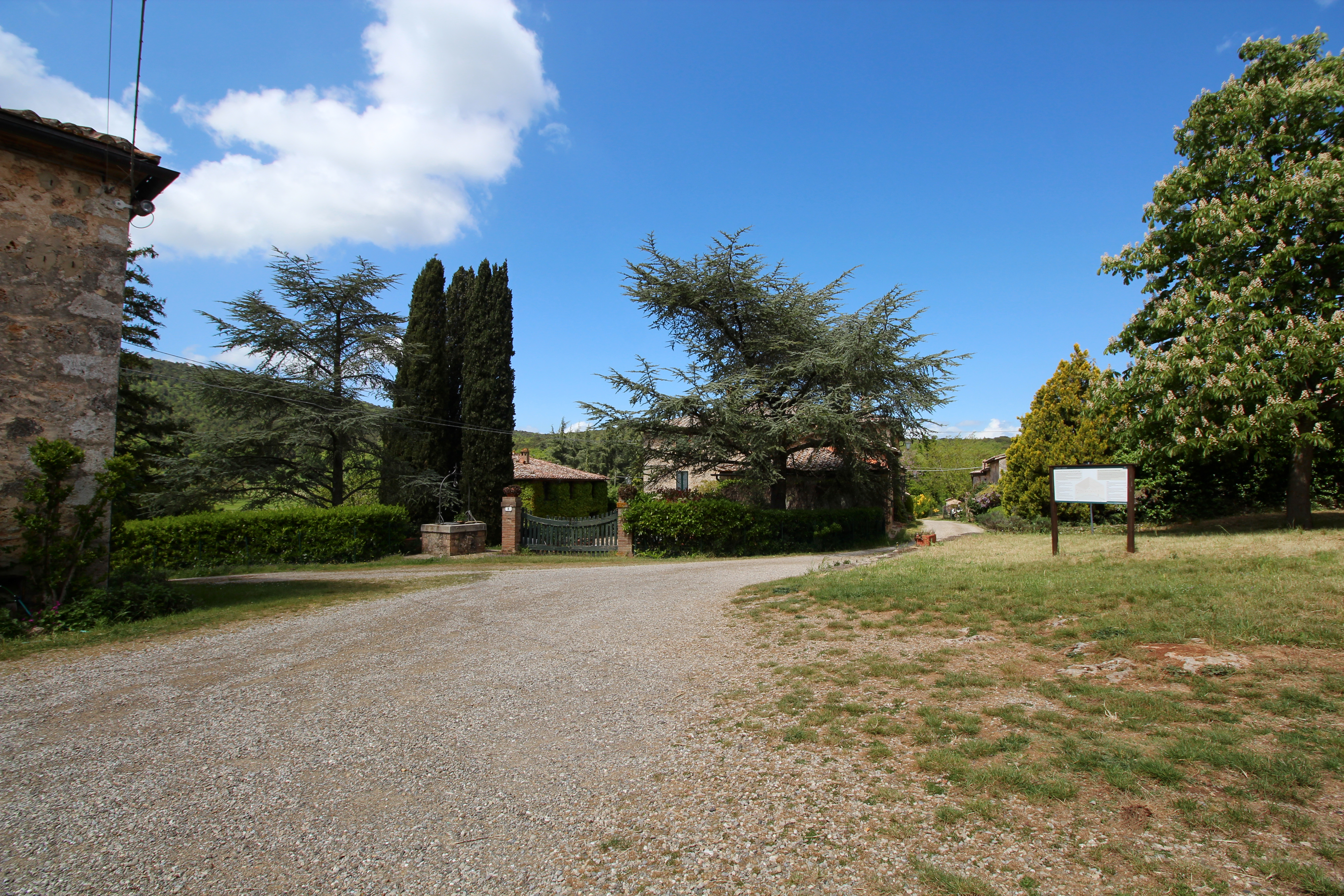 Colle Ciupi, village in the territory of Monteriggioni, Montagnola Senese, Province of Siena, Tuscany, Italy